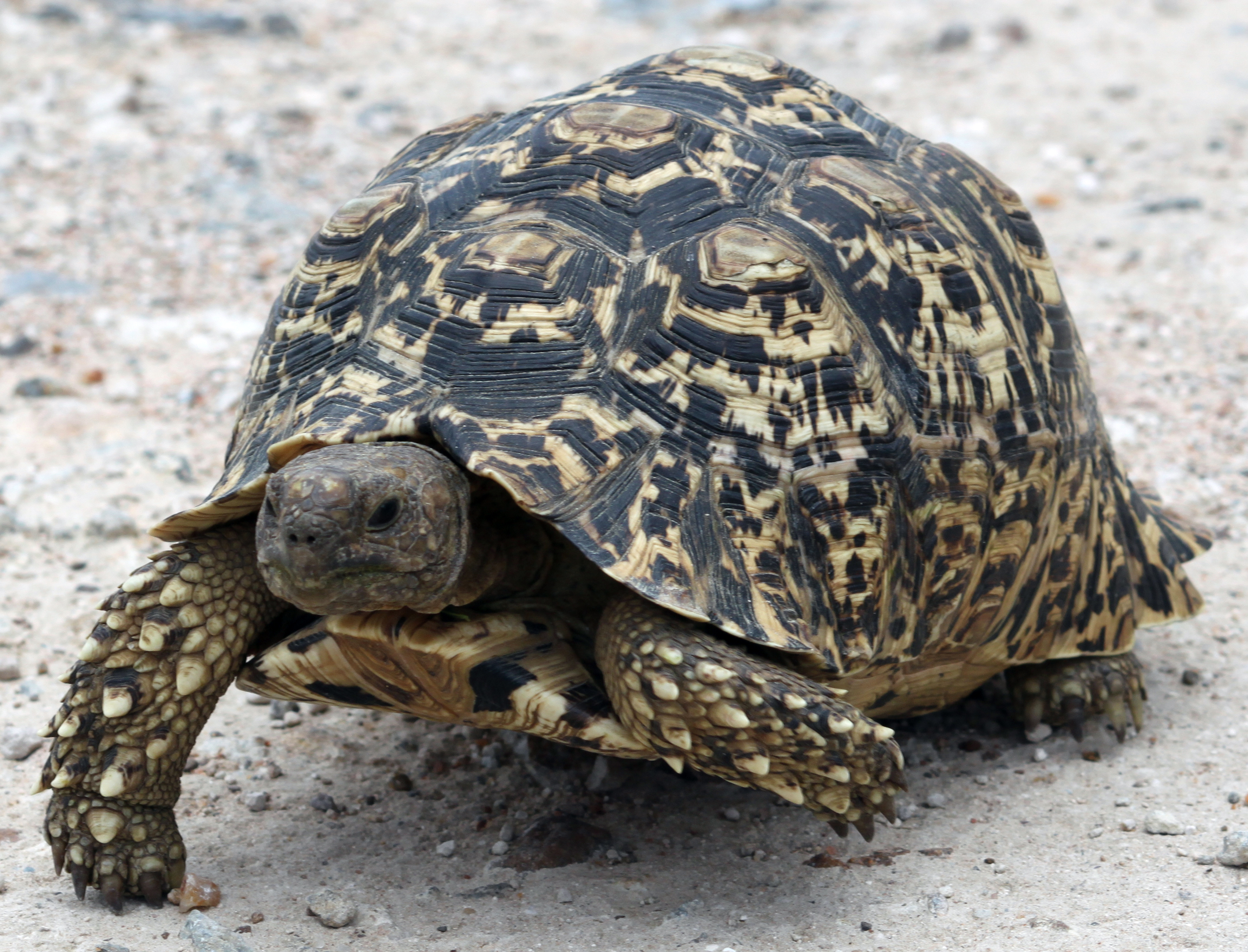 Leopard turtle (Testudo pardalis) in Namibia